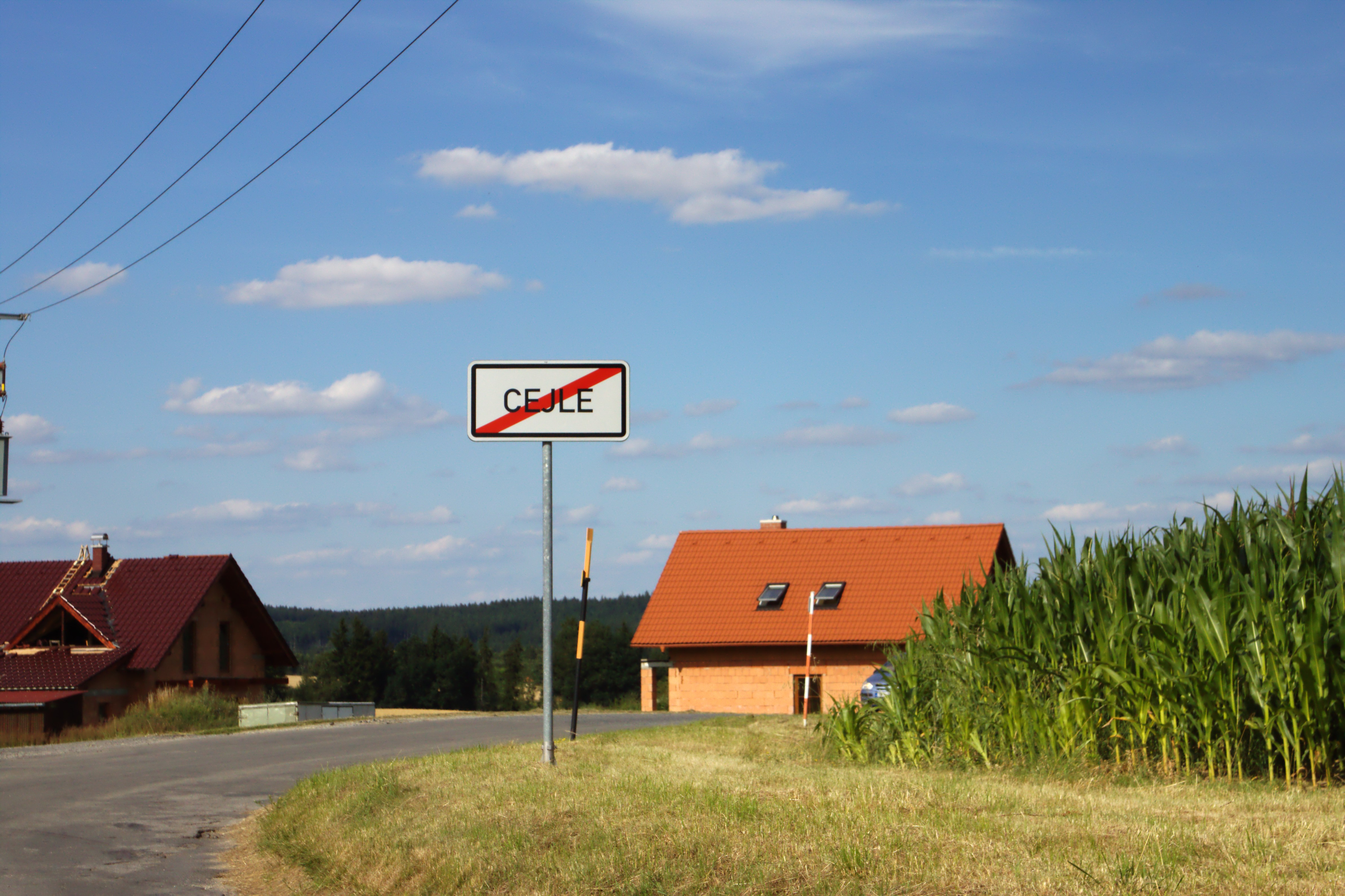 Cejle, northern edge of the village with a sign near corn field. Vysočina Region, CZ